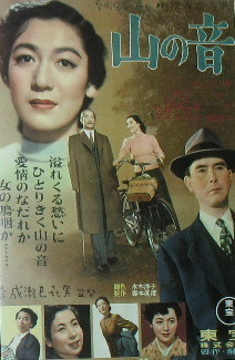 Japanese movie poster for 1954 Japanese film Sound of the Mountain (Yama no oto)